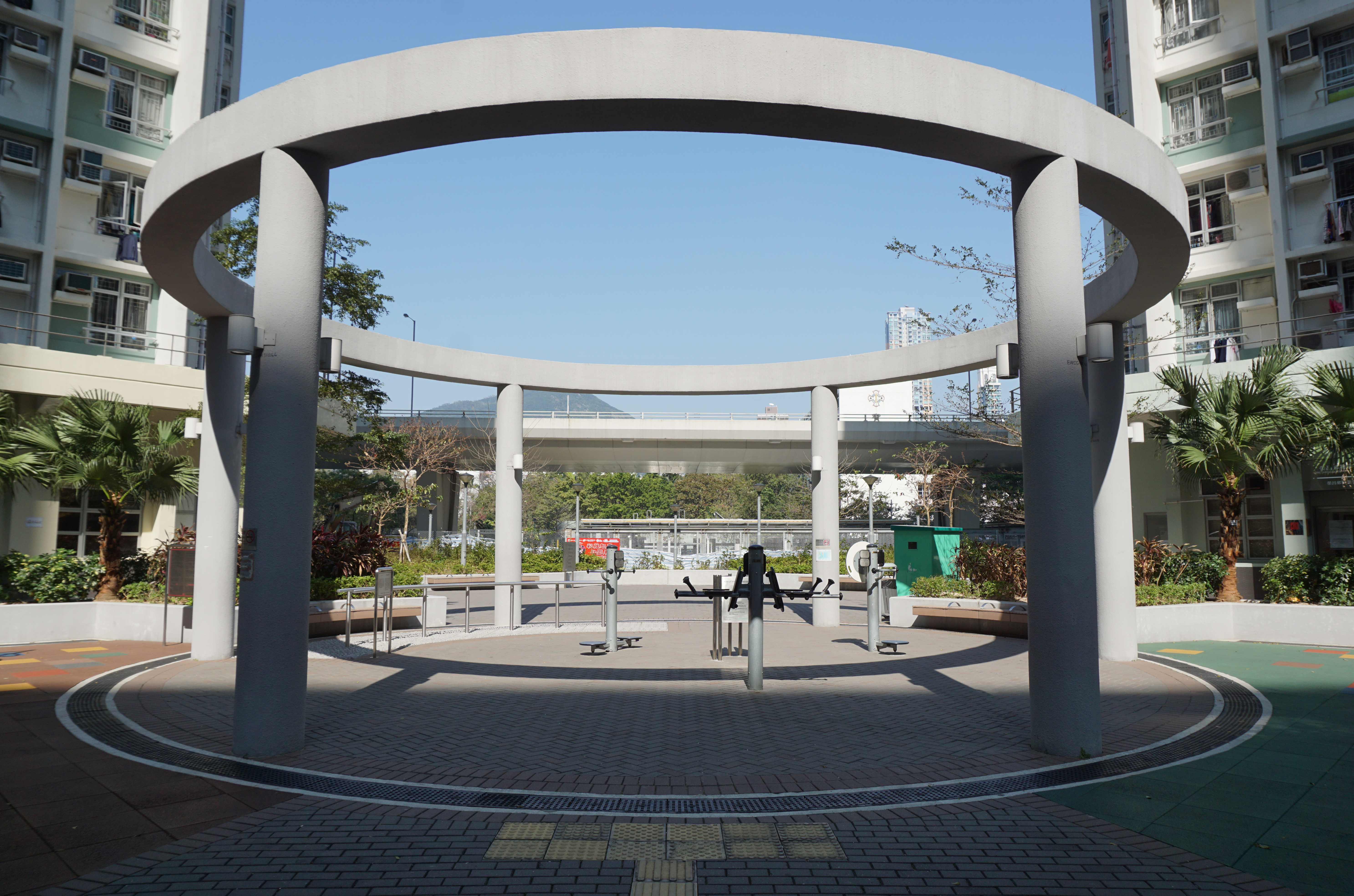 Wing Cheong Estate in Sham Shui Po, Hong Kong.